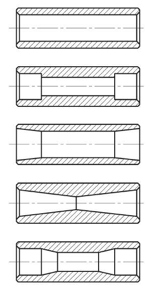 Сonstruction of gudgeon pin